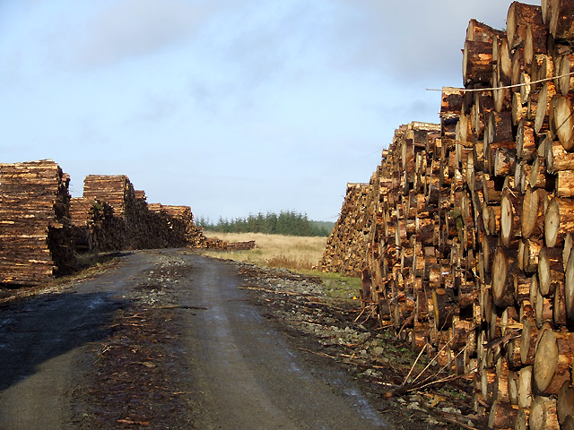 Forestry road and timber, Tywi Forest, Powys Extensive felling of the spruce trees has been taking place until late September. This timber awaiting transport is on a typically meandering forestry road which does eventually join the Lon Las Cymru cycle route on Moel Prysgau. Although this is open access land, cars and motorcycles are not routinely allowed.